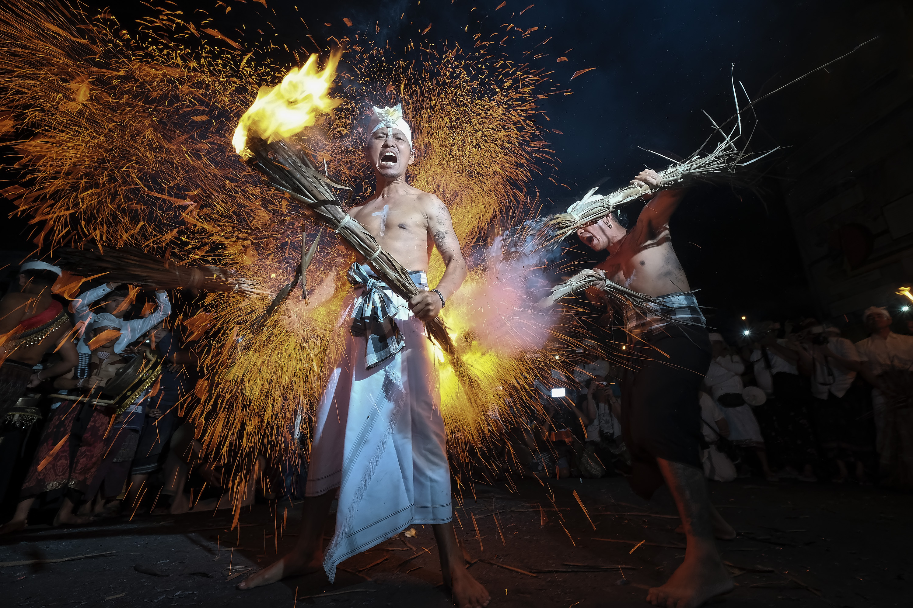 Lukat gni is a tradition that is carried out during the Shaka New Year. The warrior (satria) community in Klungkung wages a fire war with the intention of spiritually purifying themselves using fire media to welcome the Hindu New Year, which is commonly called Nyepi.